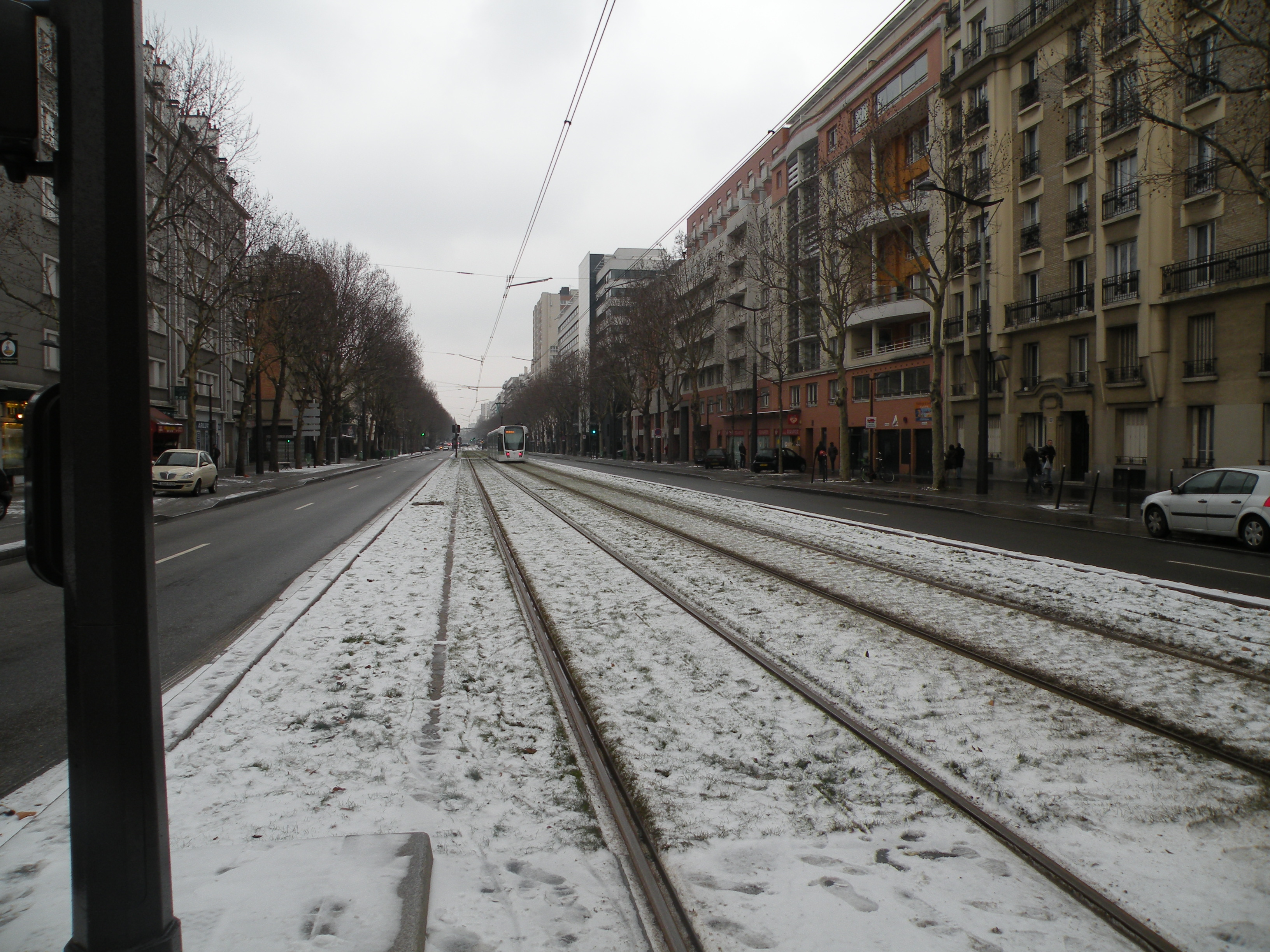 The boulevard Brune in Paris.